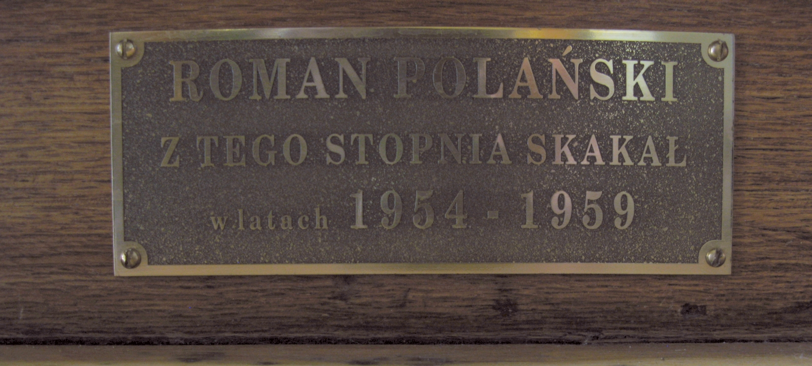 Stairs in Filmschool in Łódź - small plaque dedicated to Roman Polanski, student of this school in 1954-1959